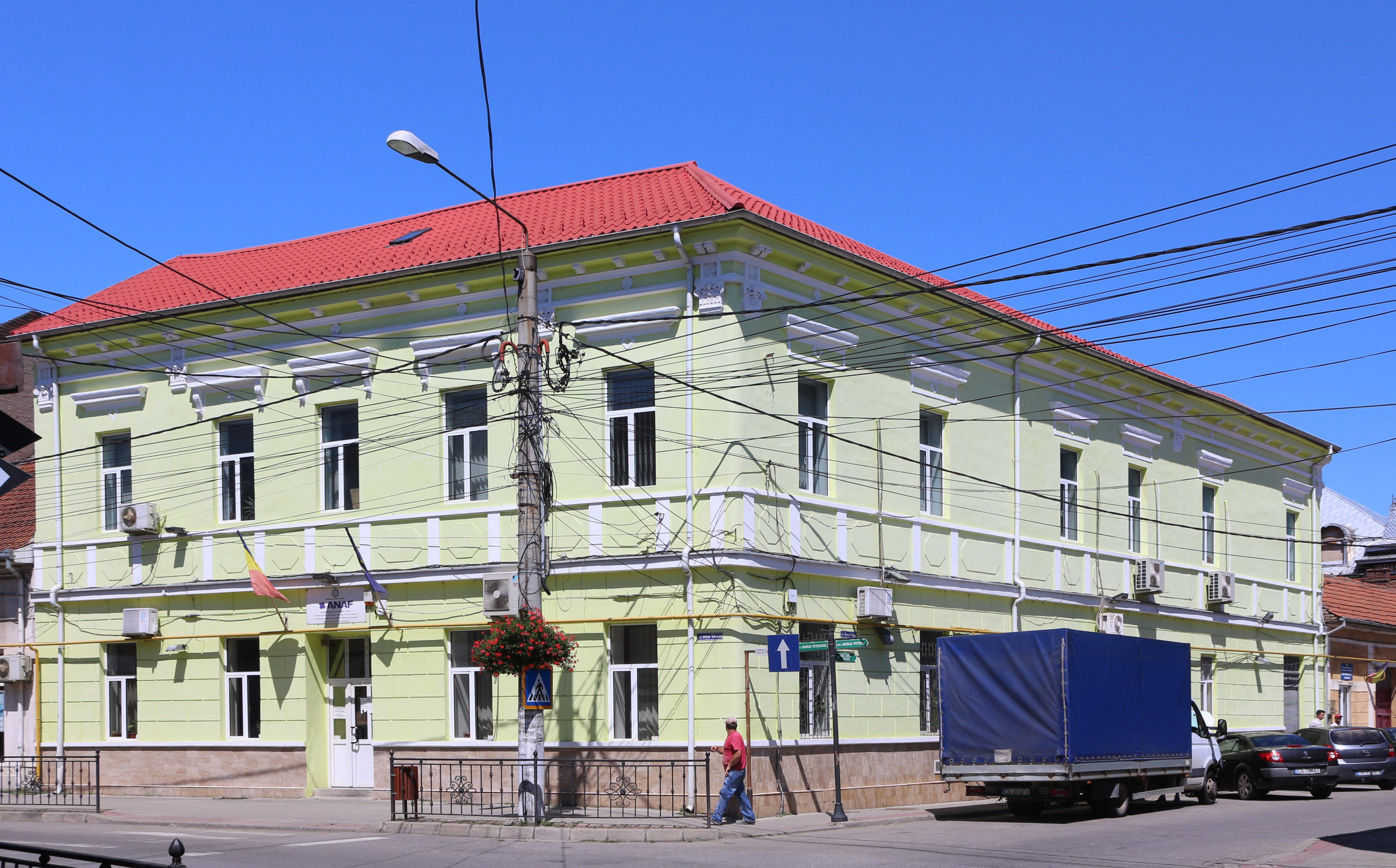 The former Bank of Banat, Gen. Mihail Trapșa St., no. 1, Caransebeș, Romania, built in the 19th century.